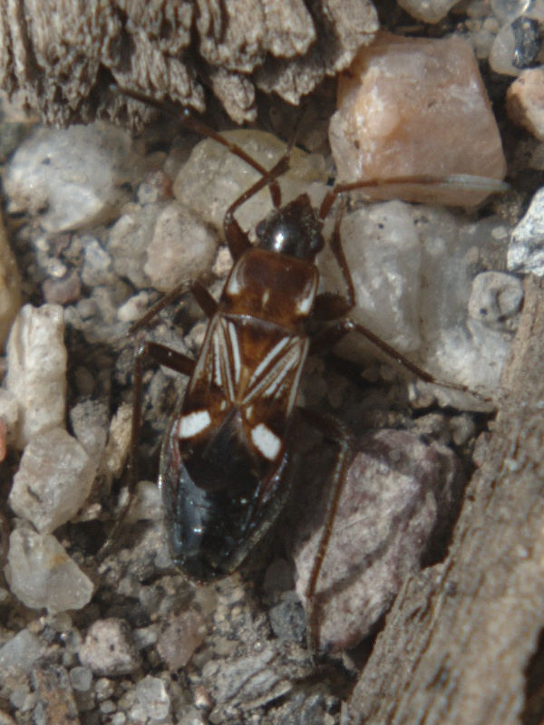 Uhleriola floralis, a bug of the family Rhyparochromidae ("dirt-colored seed bugs"), subfamily Rhyparochrominae, my yard, Española, New Mexico.